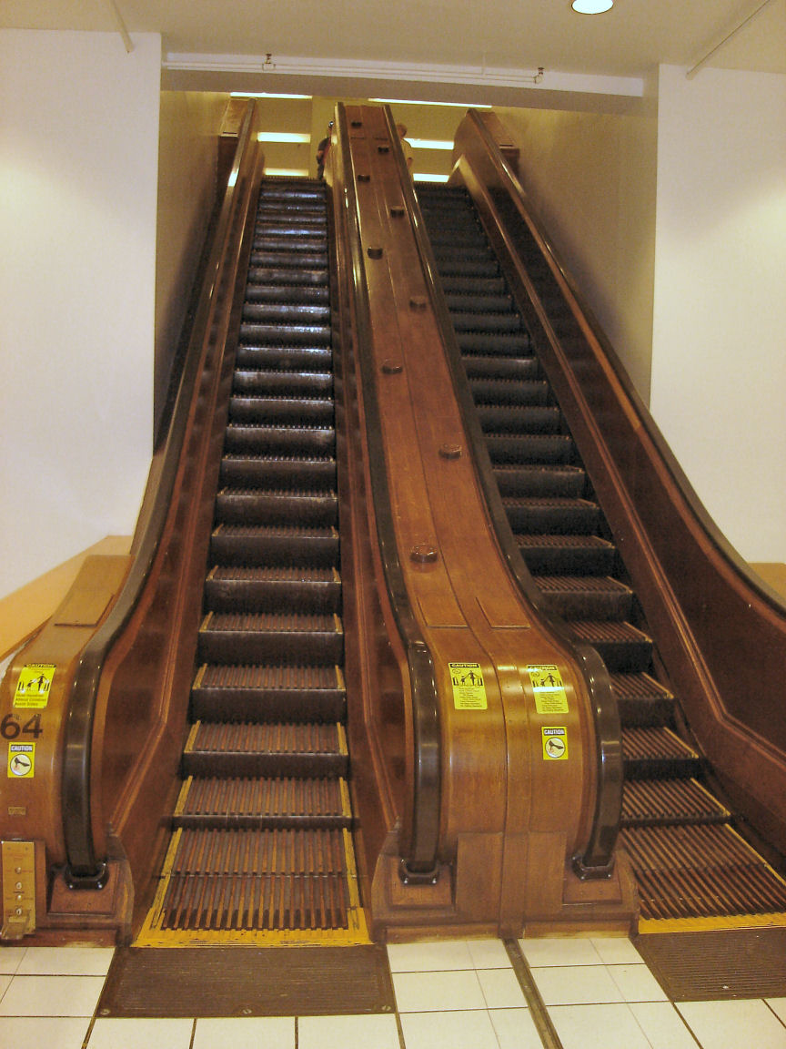 Old Escalator in Macy's department store New York